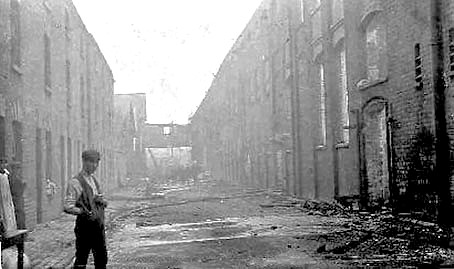 Aftermath of J.A. Matthews & Co fire High Orchard Gloucester 24 July 1912